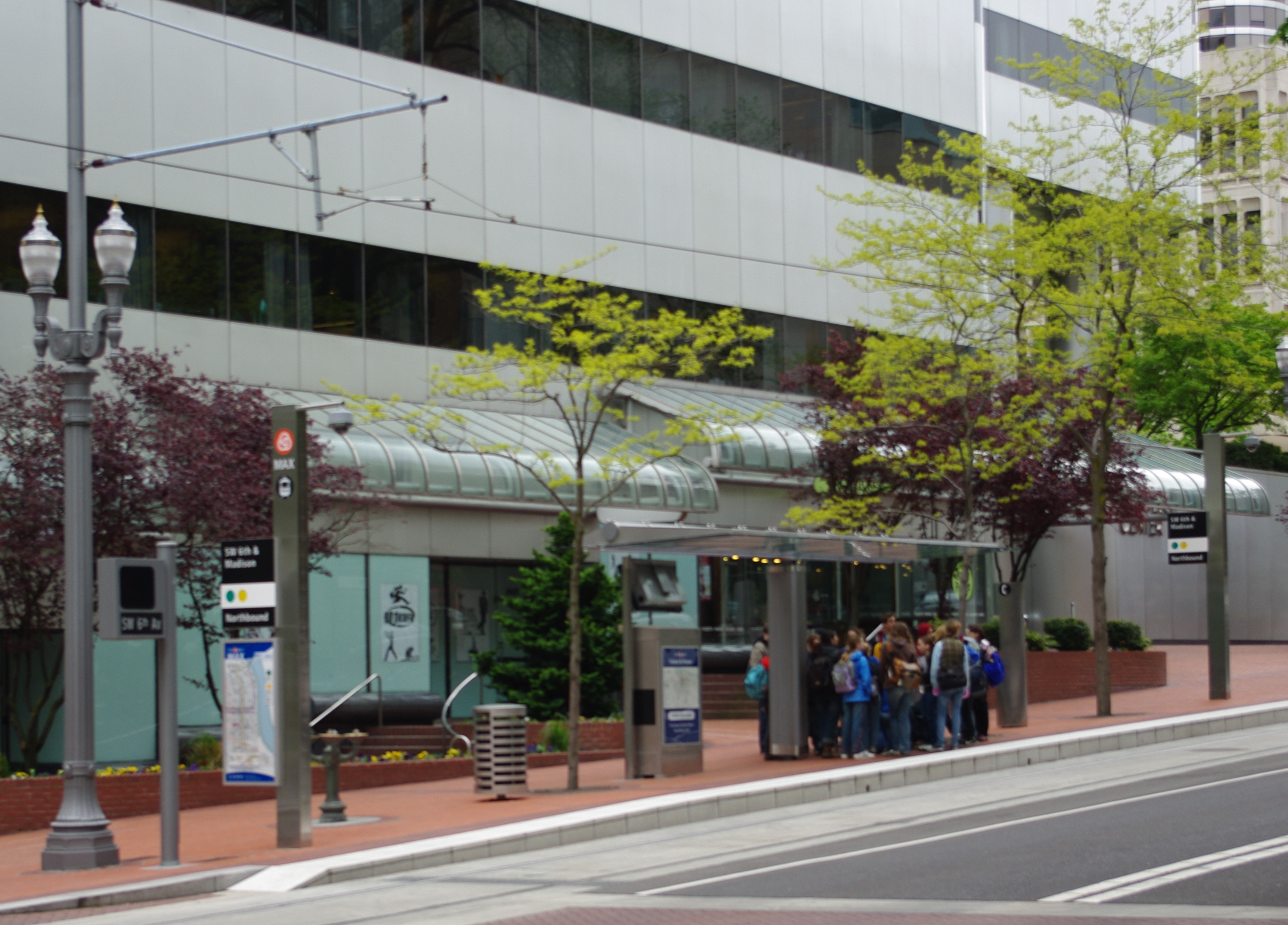 Southwest 6th & Madison Street and City Hall MAX Station in Portland, Oregon.